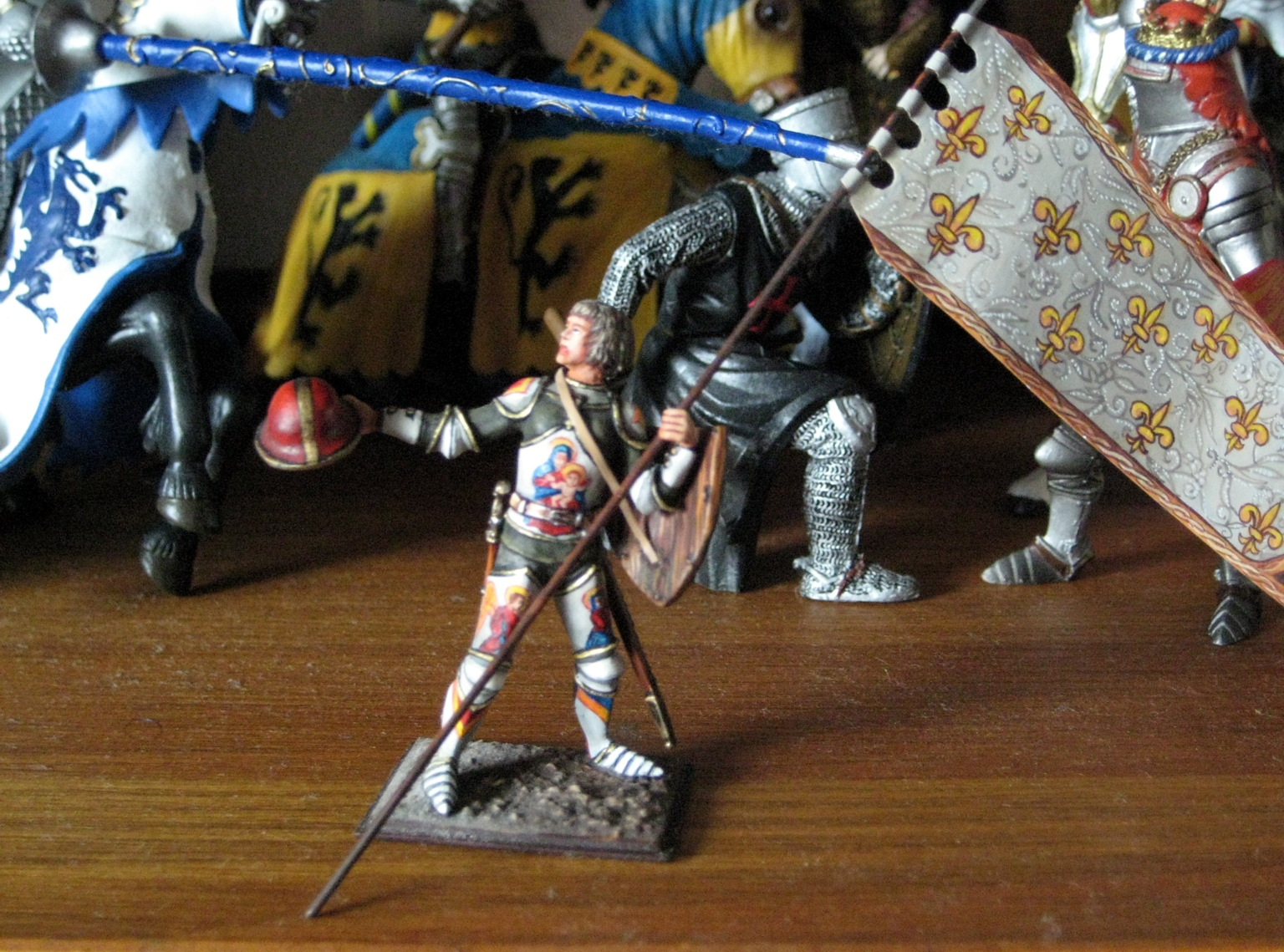 Tin soldier Joan of Arc